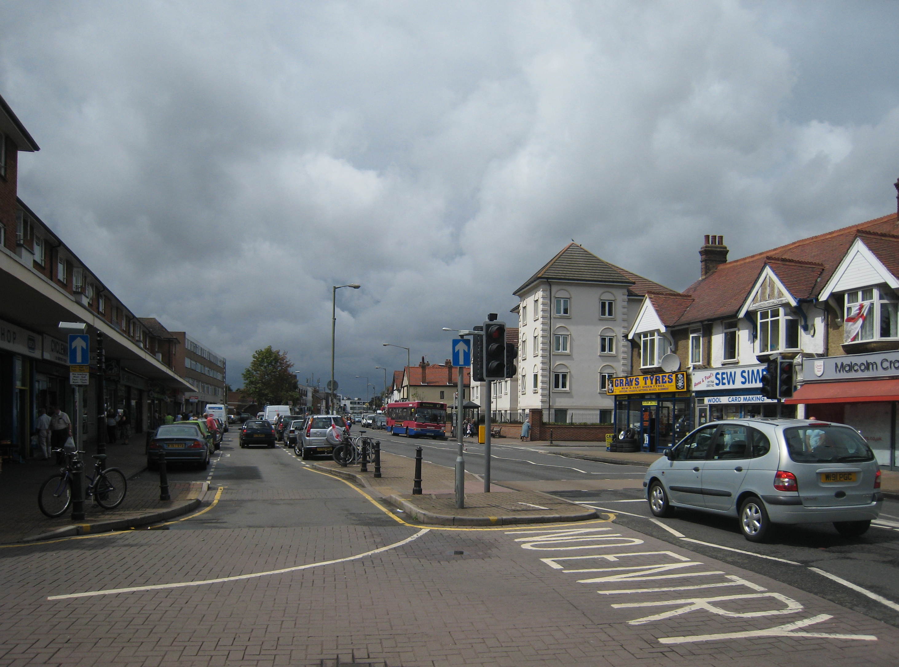 Church Road, town of Ashford (Surrey), England